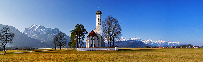 St. Coloman Church with the Neuschwanstein Castle in the background.